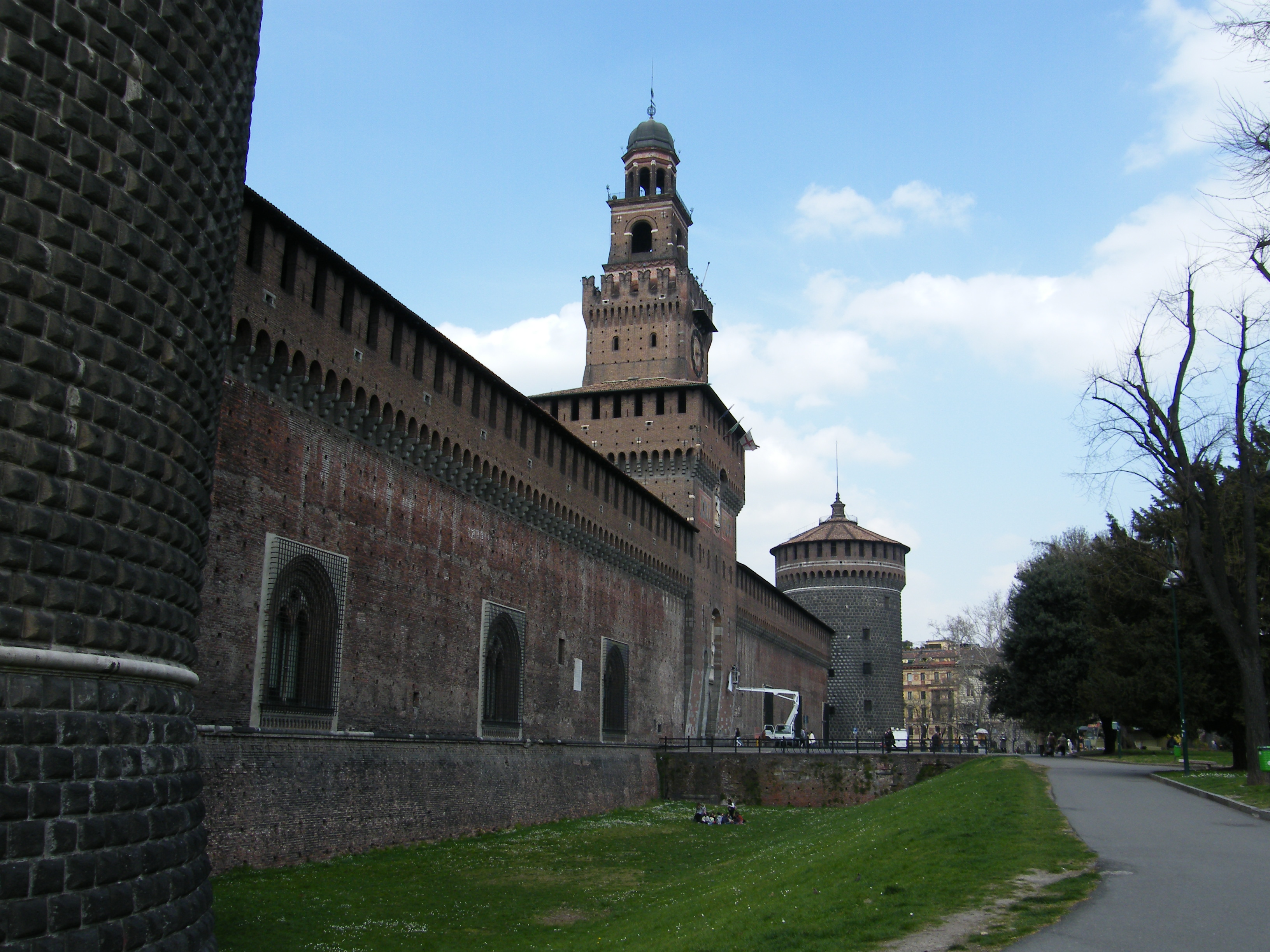 Castello Sforzesco (Milan) - Facade